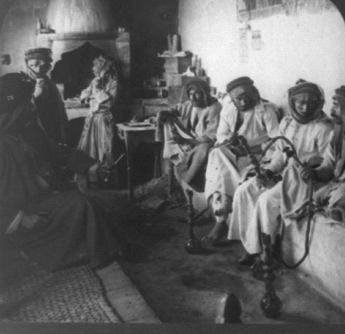 Arab leisure in a coffee house of Mosul, Iraq. Sheesha (Water pipes) smokers and tea drinkers can be seen as wellMosul Coffee House, Iraq by Underwood & Underwood, 1914 (LOC)